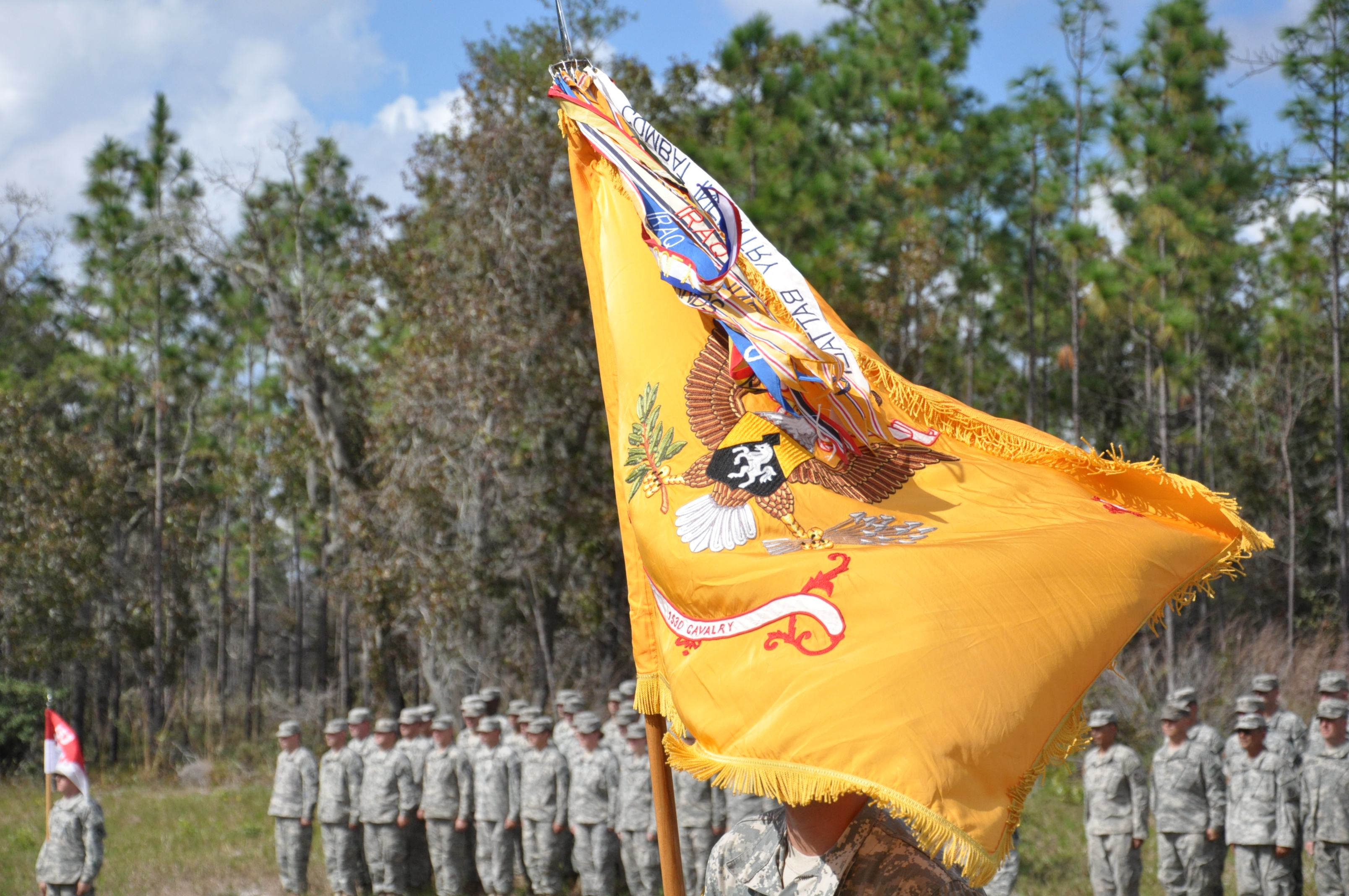 Taken Oct 2009 at Camp Blanding, FL during pre-mobilization training.